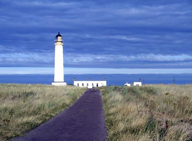 Barns Ness lighthouse. Barns Ness lighthouse, 37m high, was completed in 1901 by engineering brothers David A. and Charles Alexander Stevenson. It took 2½ years to construct, using stone brought from Craigree and Barnton quarries in NW Edinburgh. It was operated by two resident keepers until 1966, when it became semi-automatic & the staff requirement was reduced to one. The light had a range of 10 miles. It was fully automated in 1986 but became redundant after a review of requirements in October 2005 and was sold to a private buyer the following year.